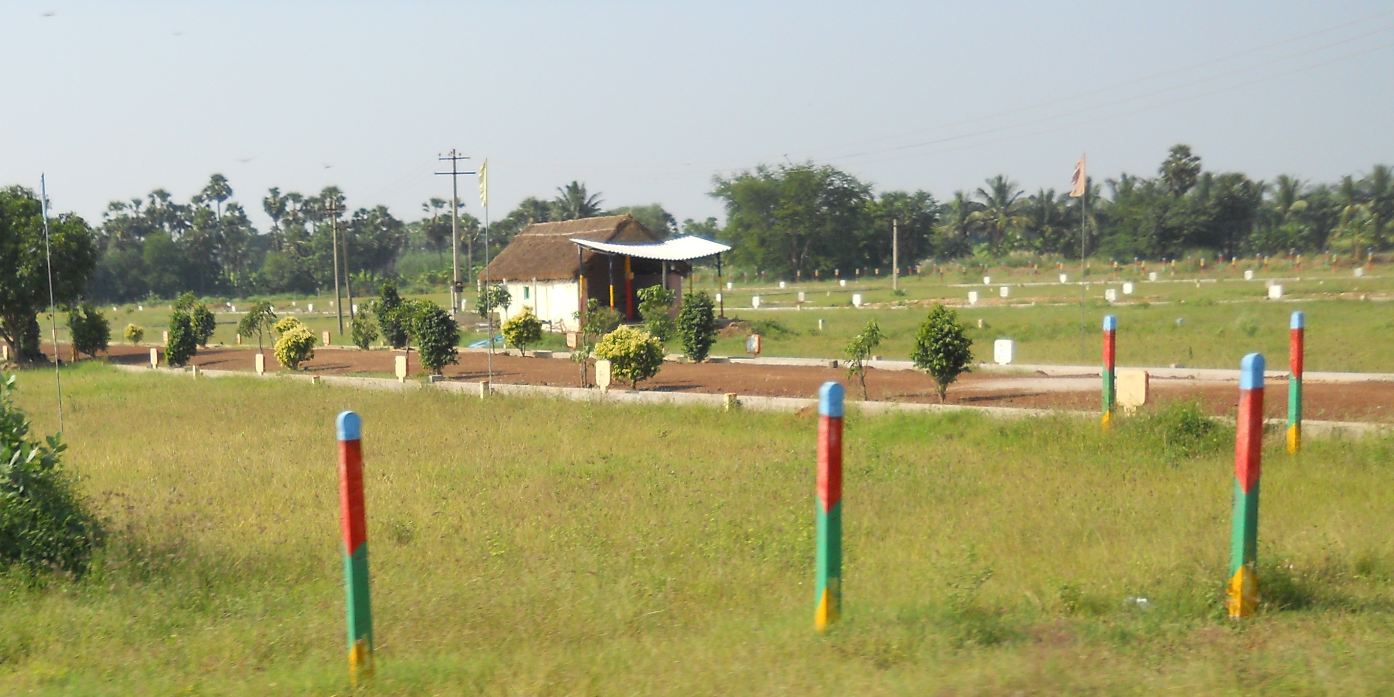 House Lands - Realestate Business at Nellore (dt), A.P, India.